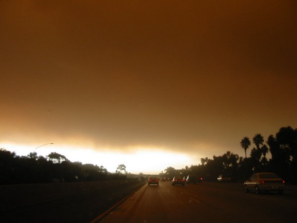 Photo taken from southbound Interstate 5 near Pacific Beach during the Cedar Fire in San Diego in 2003.